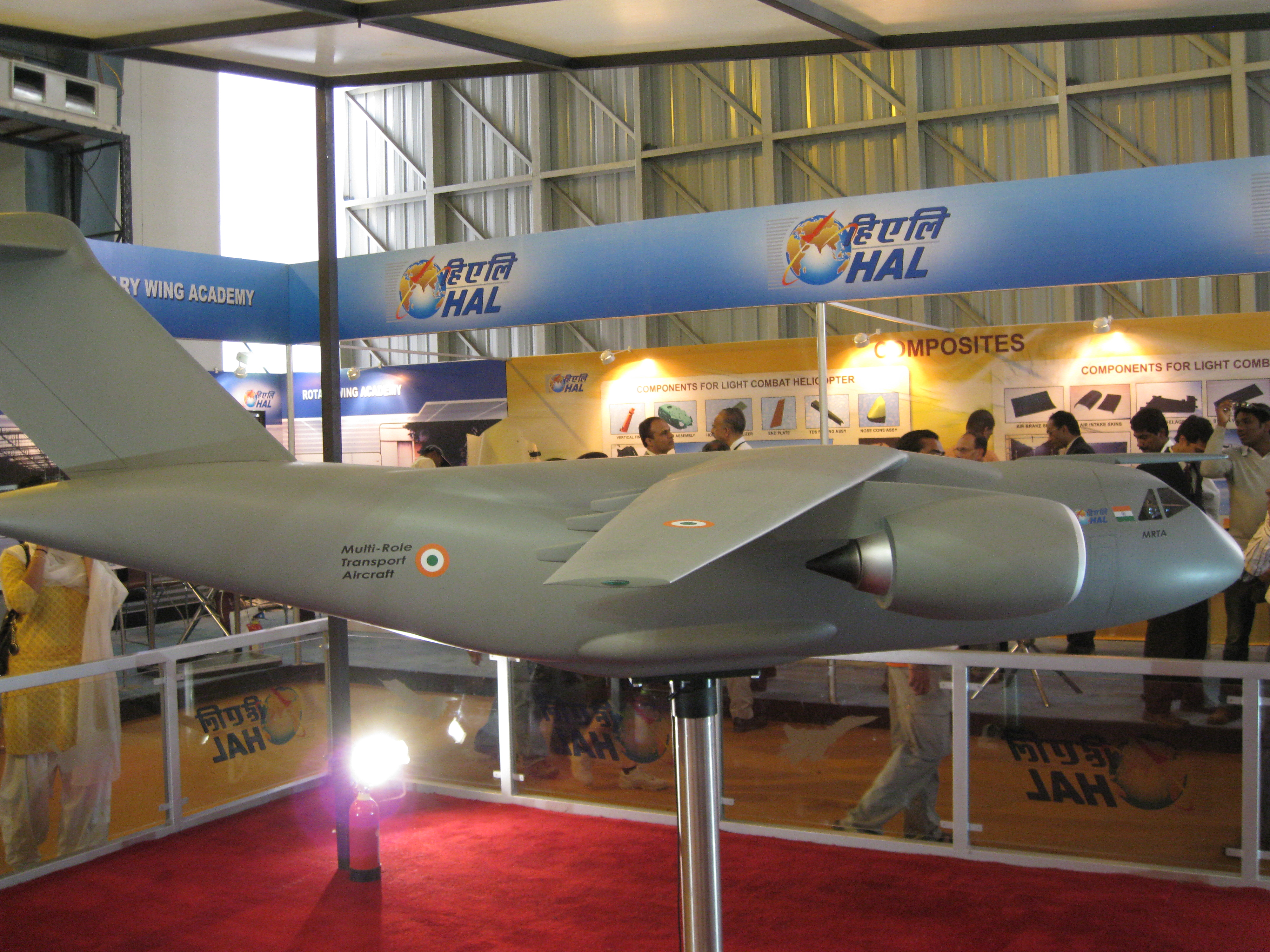 HAL Multi Role Transport aircraft